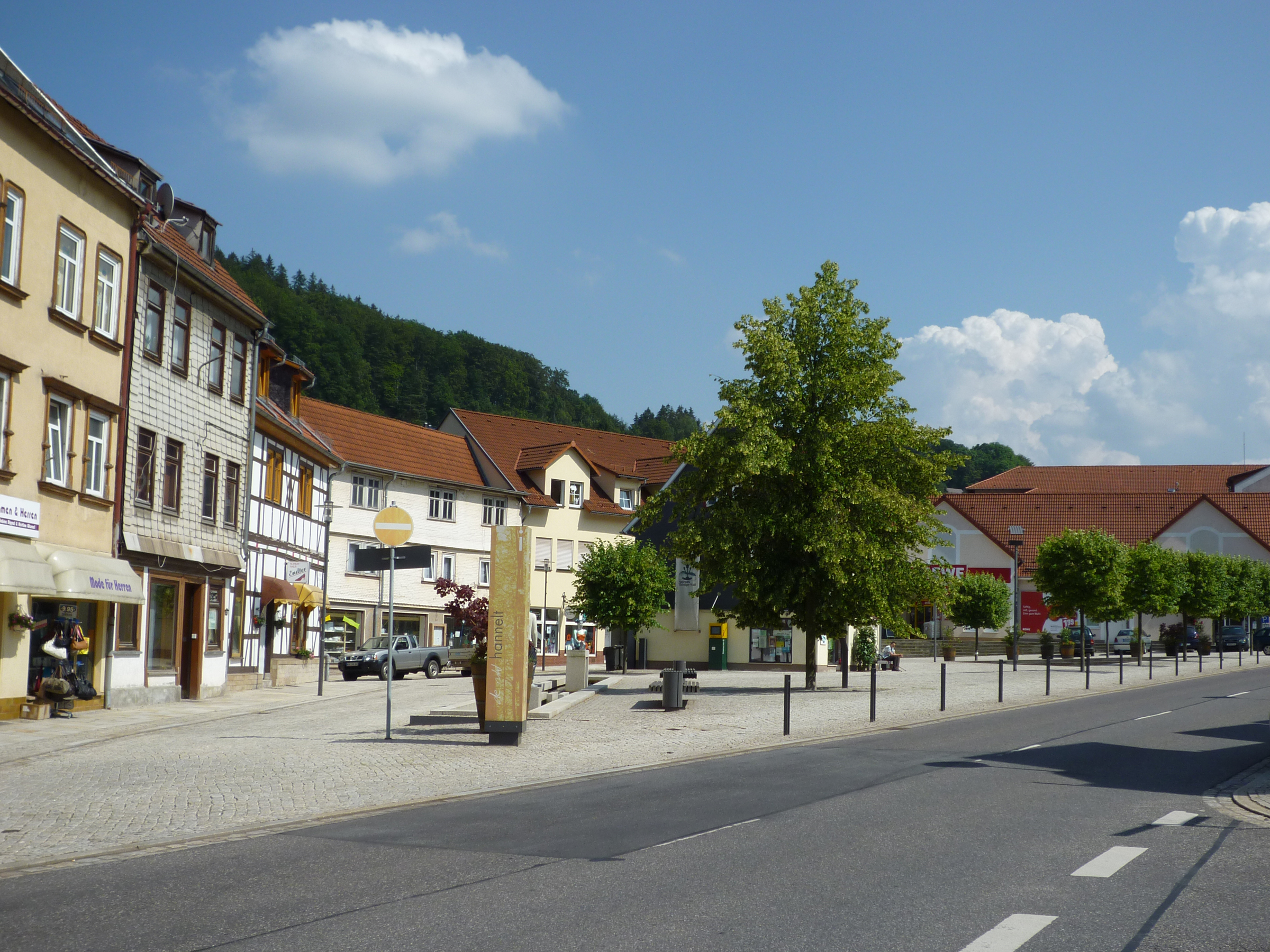 view across the marketplace in ruhla